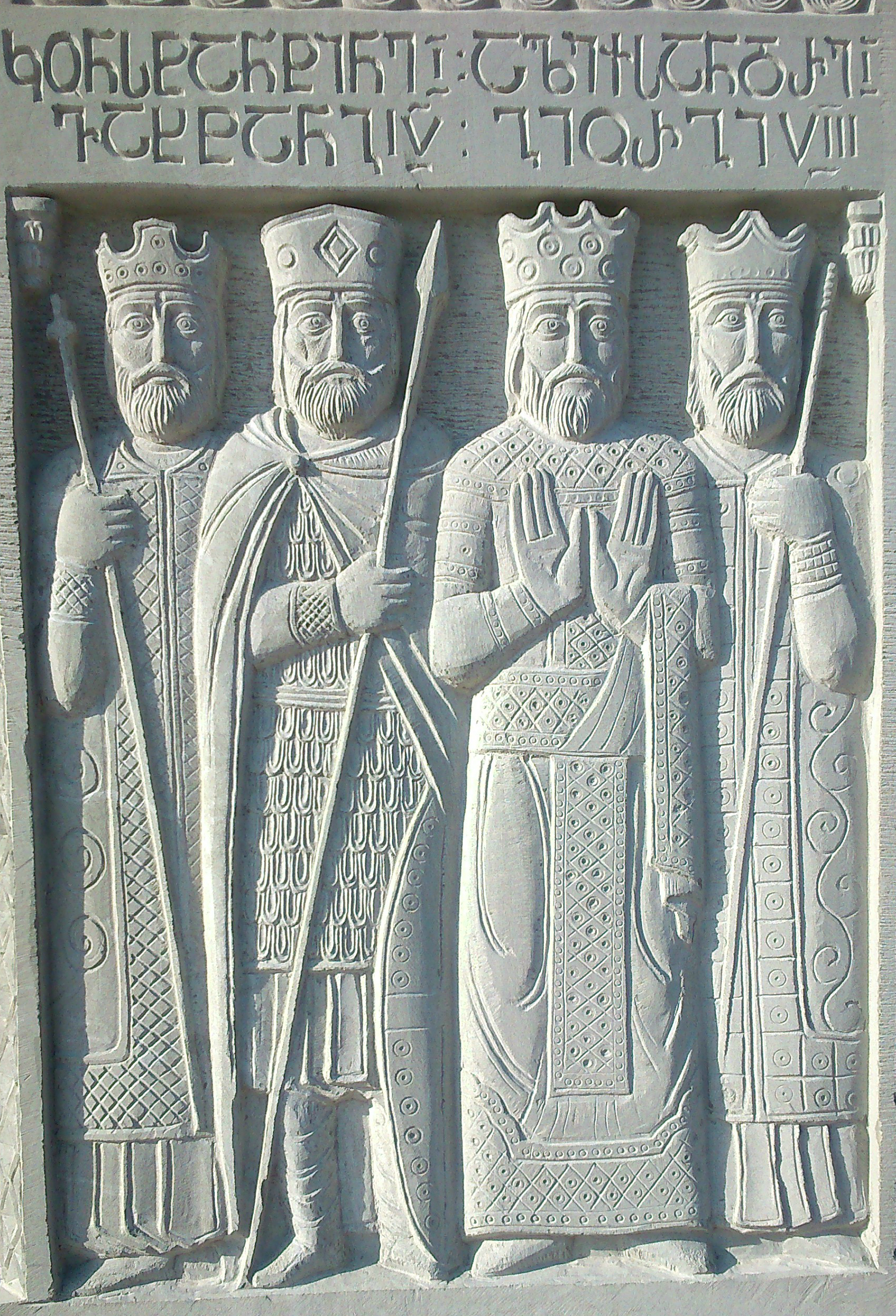 Relief of Georgian kings: Constantine I, Alexander I, Vakhtang IV and George VIII